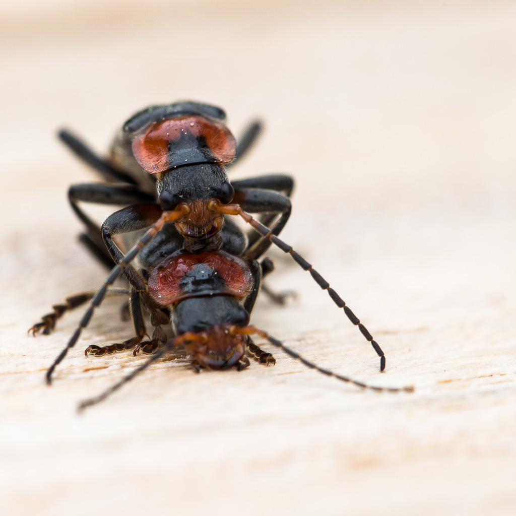 Two Cantharis obscura doin' it.